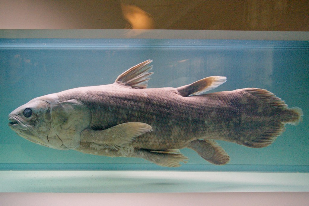 Muséum d'Histoire Naturelle de Nantes.Cœlacanthe Latimeria chalumnae Le spécimen du Muséum de Nantes est pêché aux Comores, dans la nuit du 25 au 26 septembre 1968 à 1 km du rivage, par 150 m de fond. Il s'agit d'un mâle mesurant 1,32 m et pesant 33,8 kg. Les cœlacanthes Latimeria chalumnae sont les derniers survivants d'une lignée qui a connu son apogée il y a 240 millions d'années. Natural History Museum of Nantes.Cœlacanthe Latimeria chalumnae The specimen from the Museum of Nantes is caught in the Comoros, on the night of 25 to 26 September 1968 1 km from the shore by 150 m deep. This is a male measuring 1.32 m and weighing 33.8 kg. The coelacanth Latimeria chalumnae are the last survivors of a lineage that had its heyday there are 240 million years.